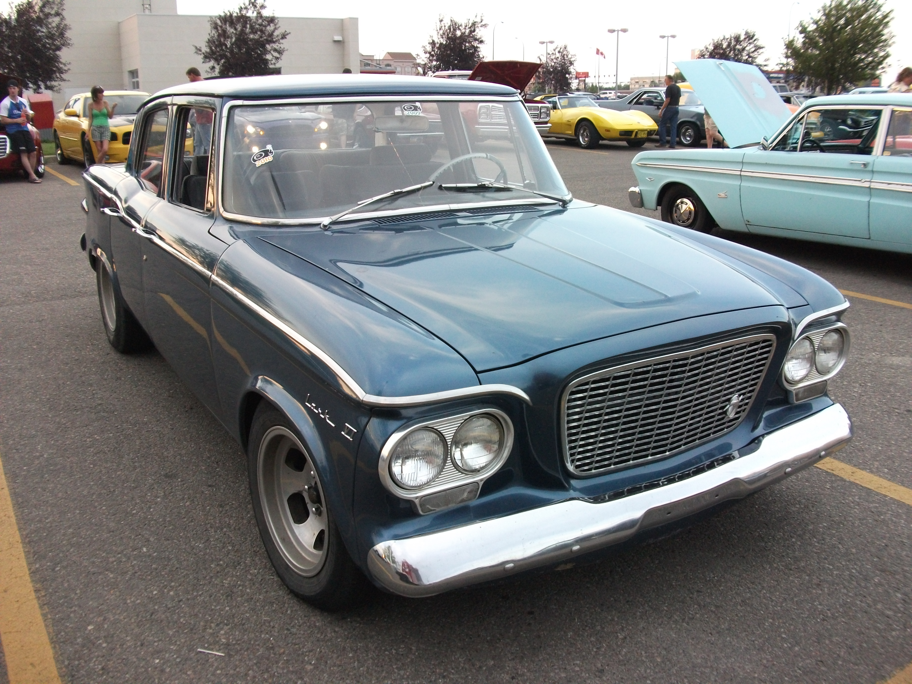 Studebaker Lark VI with slot mags. Nice!